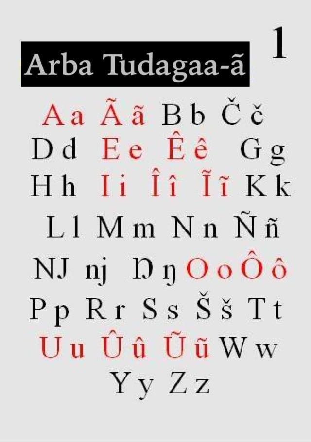 Latin alphabet is used by Toubou to write their language